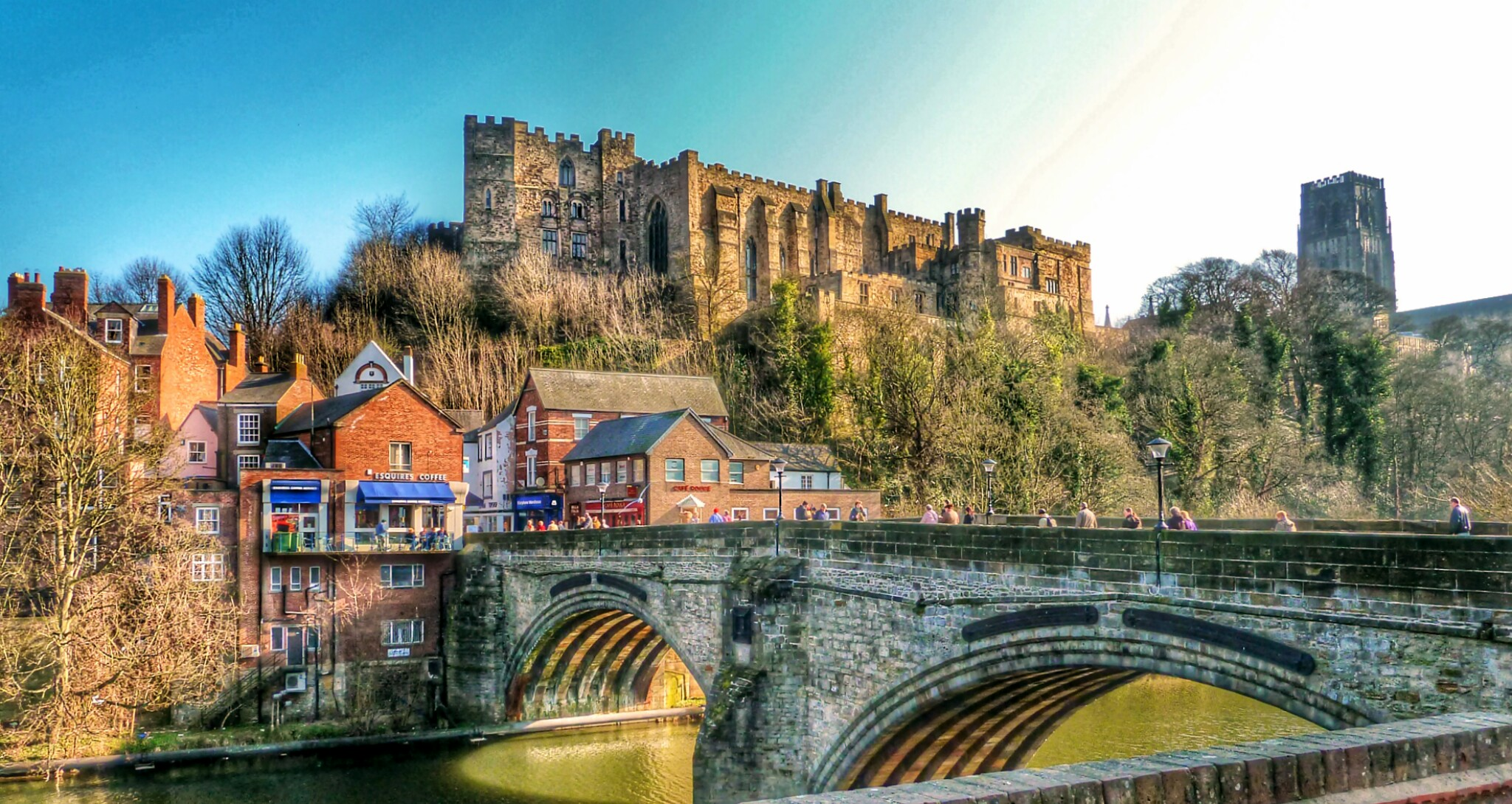 river wear, Framwellgate bridge, Durham castle and cathedral..